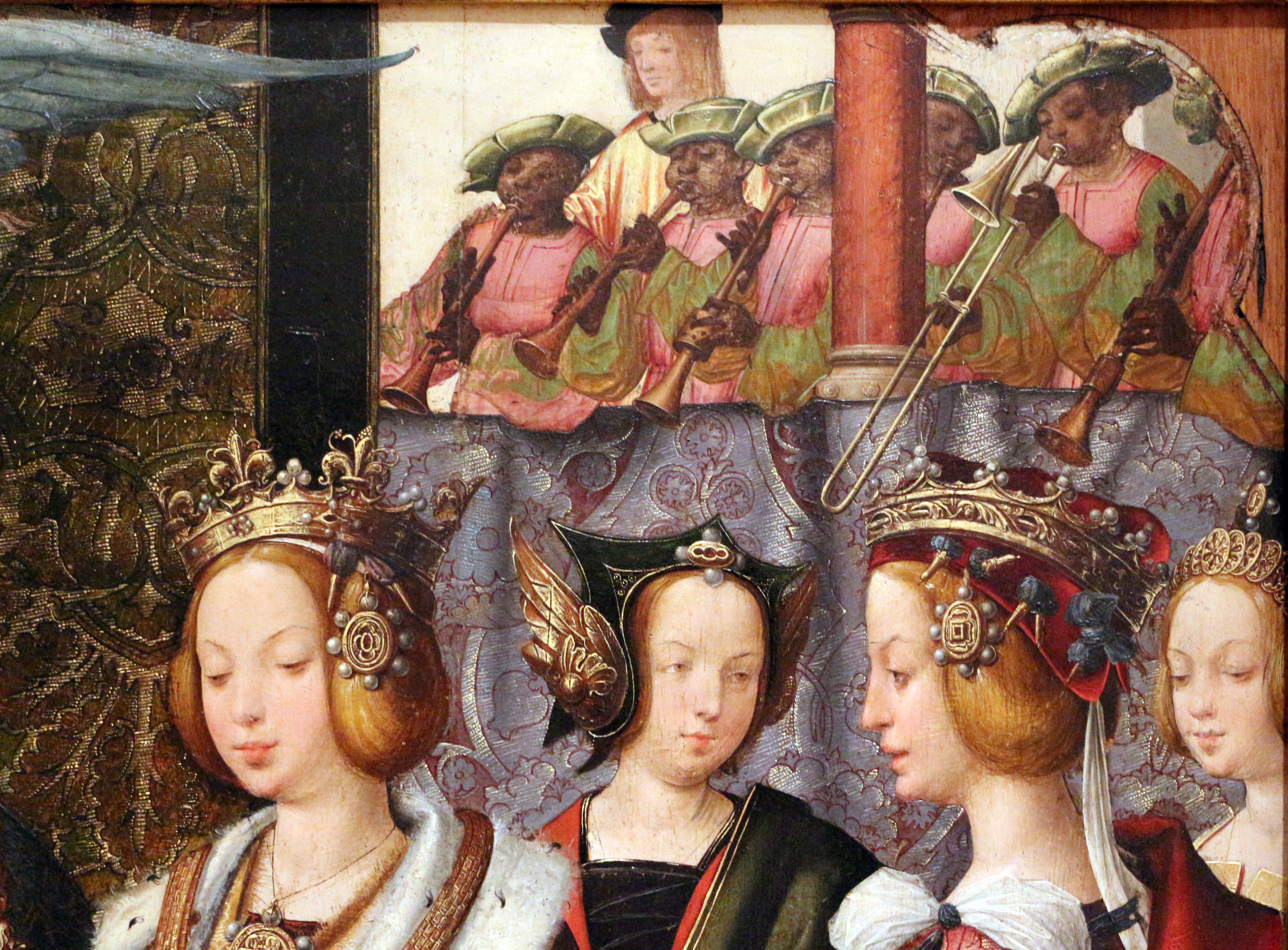 Retábulo de Santa Auta